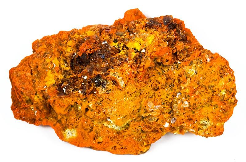 Copiapite Locality: Alcaparrosa Mine, Cerritos Bayos, Calama, El Loa Province, Antofagasta Region, Chile (Locality at ) Size: 11.9 x 7.4 x 4.0 cm. Sharp, lustrous, mica-like crystals of copiapite in unusually large sizes to 8mm, richly decorate this large matrix specimen. Ex. Philadelphia Academy of Sciences Collection.